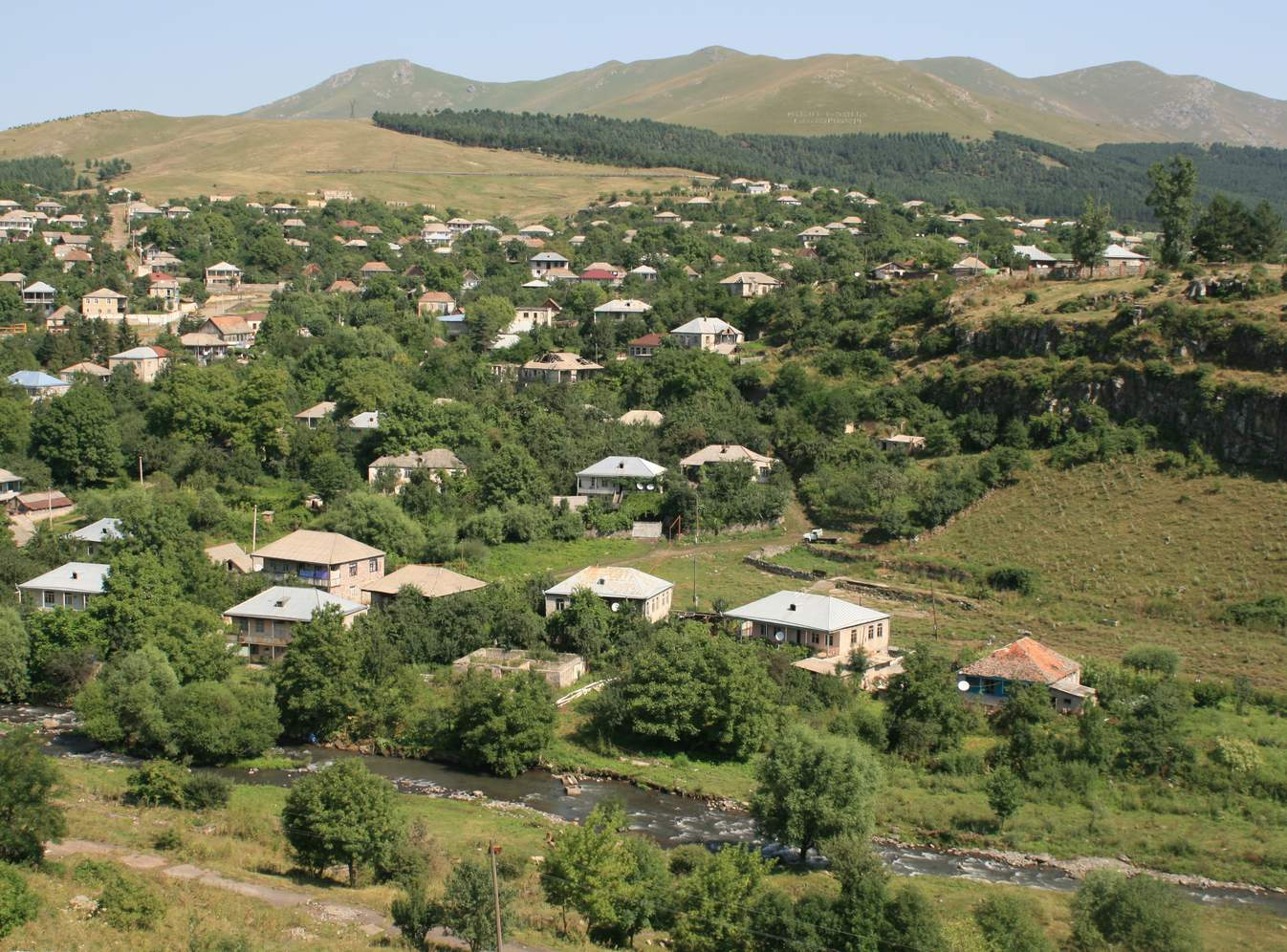 Dmanisi. Western outskirts of the town